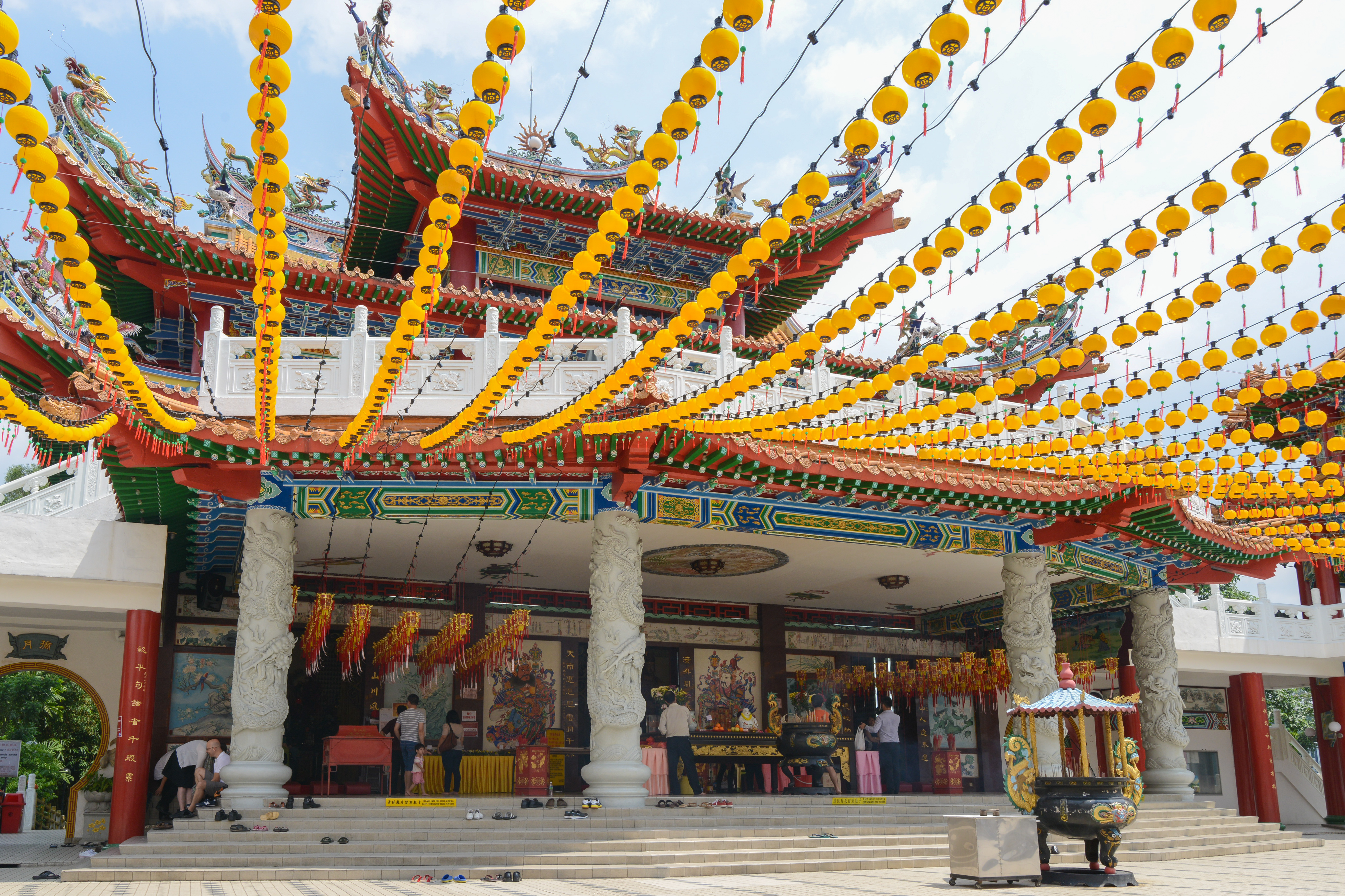 This is one of the largest Chinese temples in South-East Asia and is located on top of Robson Hill. This temple belongs to the Malaysian Chinese community in Malaysia and public donations made it possible to open the temple. The front entrance of the temple features a multi-arched gateway with red pillars, the colour symbolic of prosperity and good fortune. Souvenir stalls and a canteen are found on the 1st level. The 2nd level houses the multi-purpose hall while offices are located on the 3rd level. The 4th level has 3 tiers and the prayer hall is located here. The fountain of Kuan Yin, the Goddess of Mercy and statues of gods and lions can be seen on the grounds of the temple. The main shrine with Thean Hou Goddess, you find on the third floor of this four levels temple. The temple has elements of Buddhism, Taoism and Confucianism structures and represents a successful combination of modern architectural techniques and authentic traditional design featuring imposing pillars, spectacular roofs, ornate carvings and intricate embellishments. Its architecture has made it a popular tourist destination